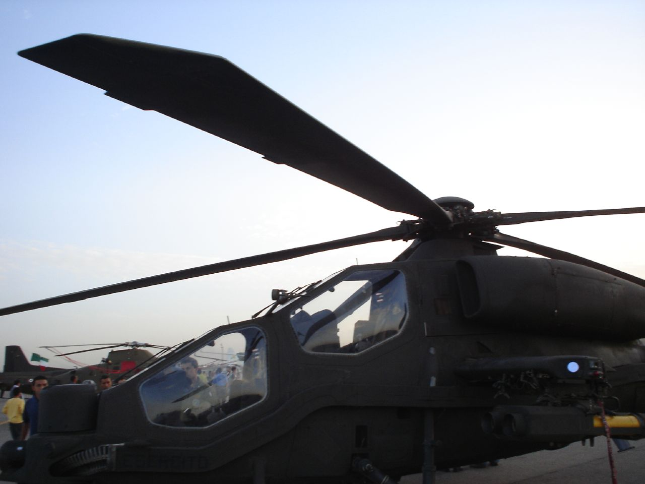 Italian Army A129 "Mangusta" helicopter, just show in LAVEX2007.